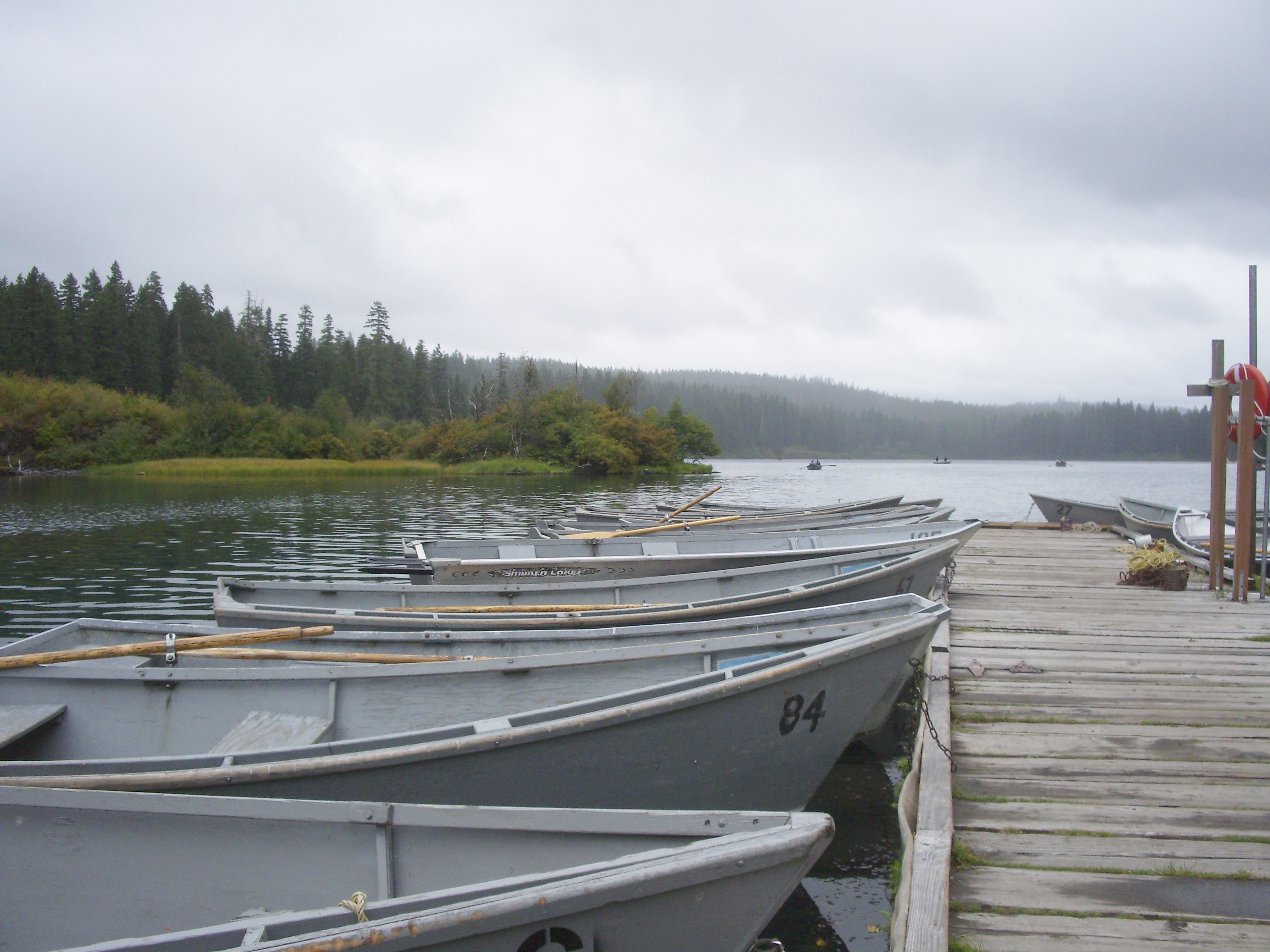 Marina and main body of Clear Lake in Oregon's Cascade Mountains